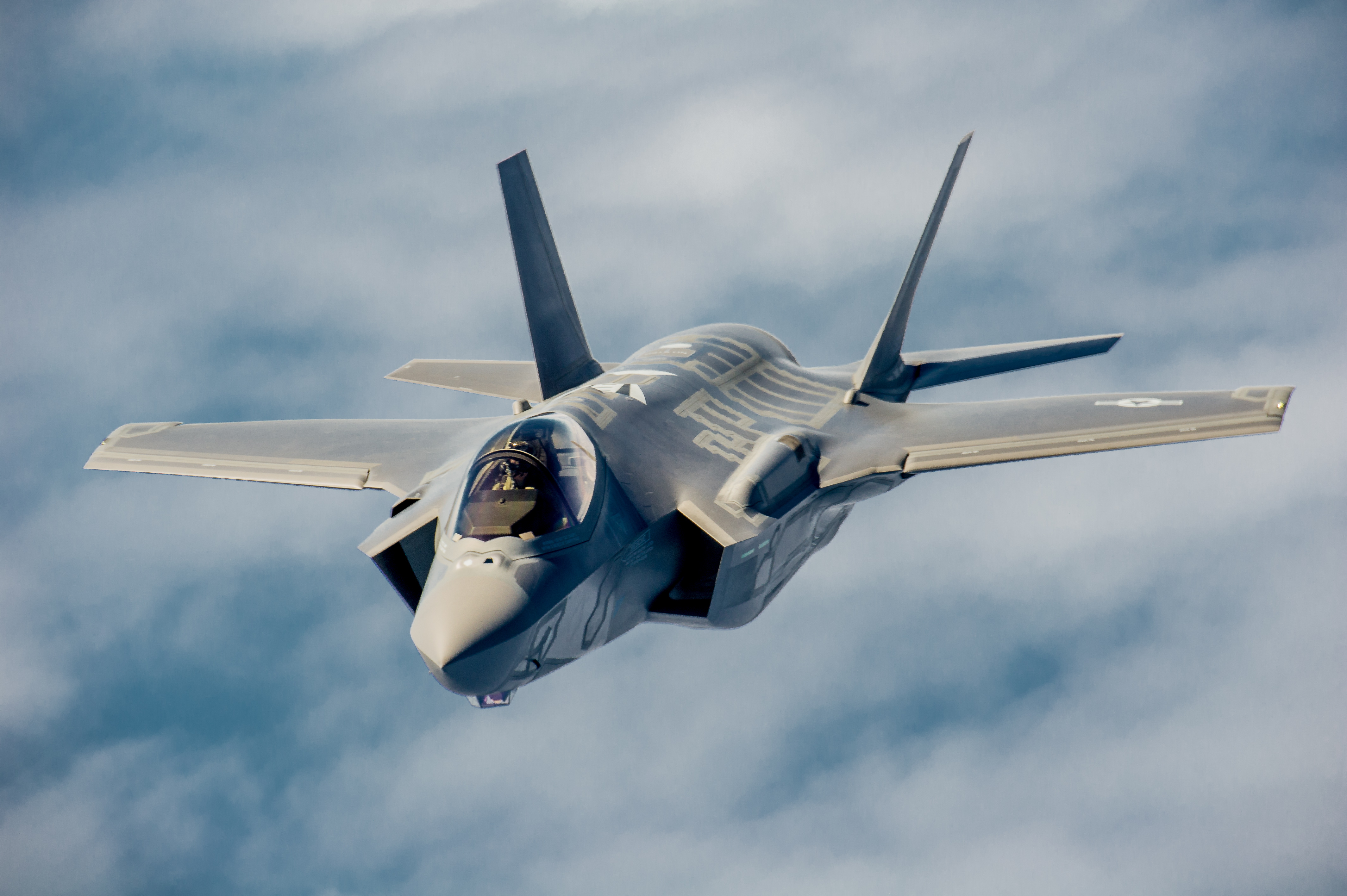 A U.S. Air Force pilot navigates an F-35A Lightning II aircraft assigned to the 58th Fighter Squadron, 33rd Fighter Wing into position to refuel with a KC-135 Stratotanker assigned to the 336th Air Refueling Squadron over the northwest coast of Florida May 16, 2013. The F-35 Integrated Training Center was established at Eglin Air Force Base and was responsible for conducting student pilot training and maintainer training for Airmen, Marines and Sailors responsible for the aircraft.